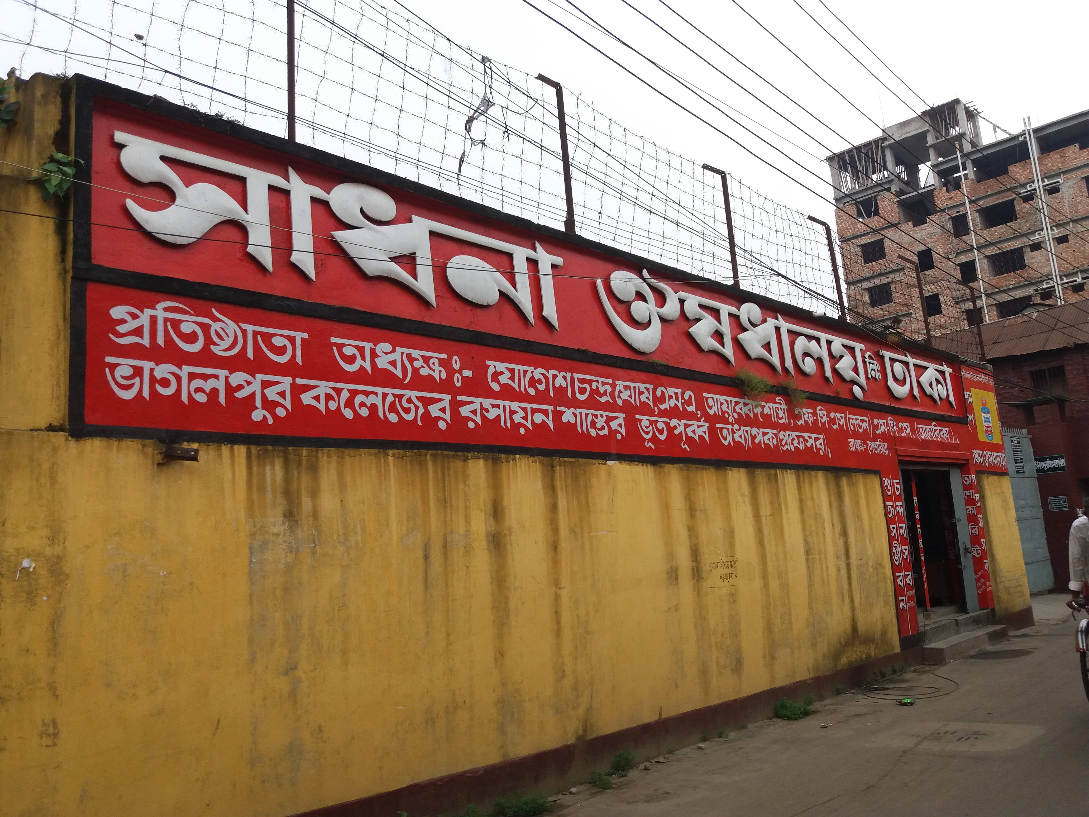 Sadhna Medicine company, main office in Dhaka, Bangladesh